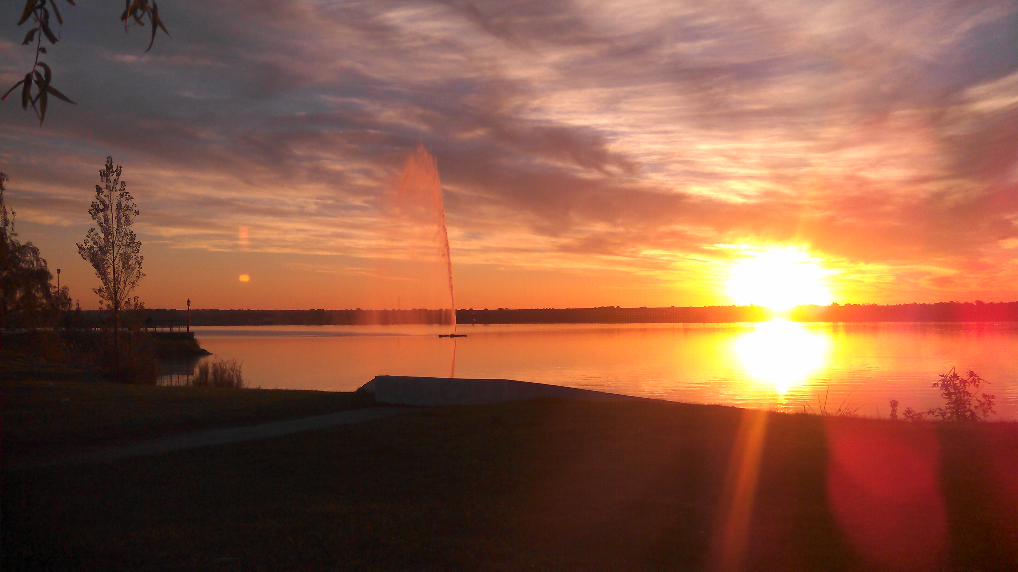 late afternoon in lagoon "Don Tomas"